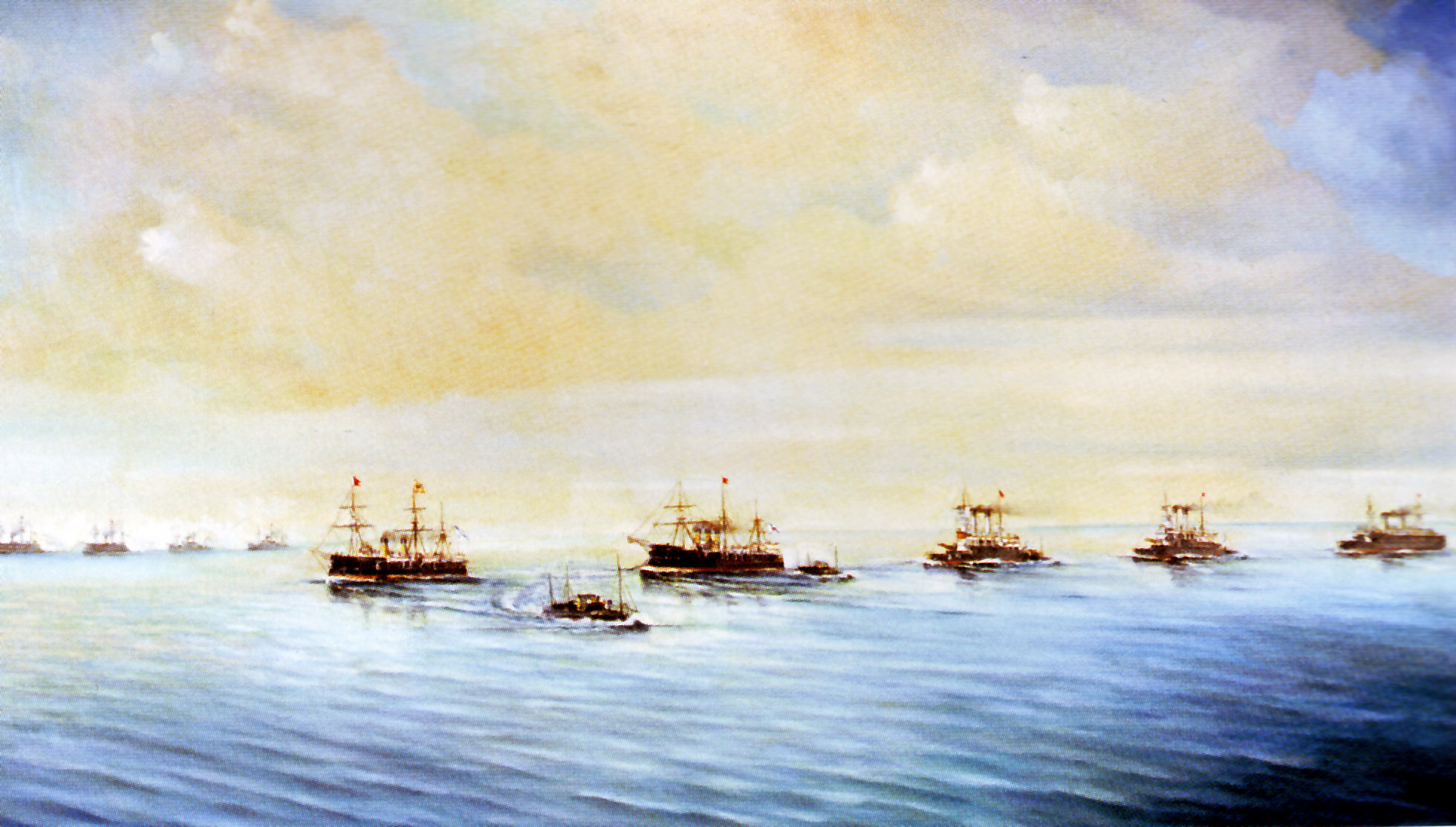 Picture of Nikolai Ivanovich Povalishin "Maneuvers in the Revel raid on July 24, 1902". Date of creation 1904. From funds of the Central Naval museum, St.-Petersburg